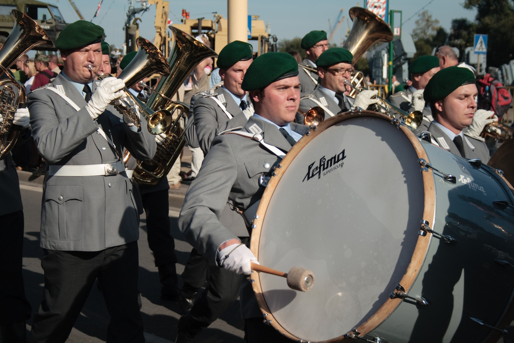 German Military Band - Drums and Brass Sections, Military Parade